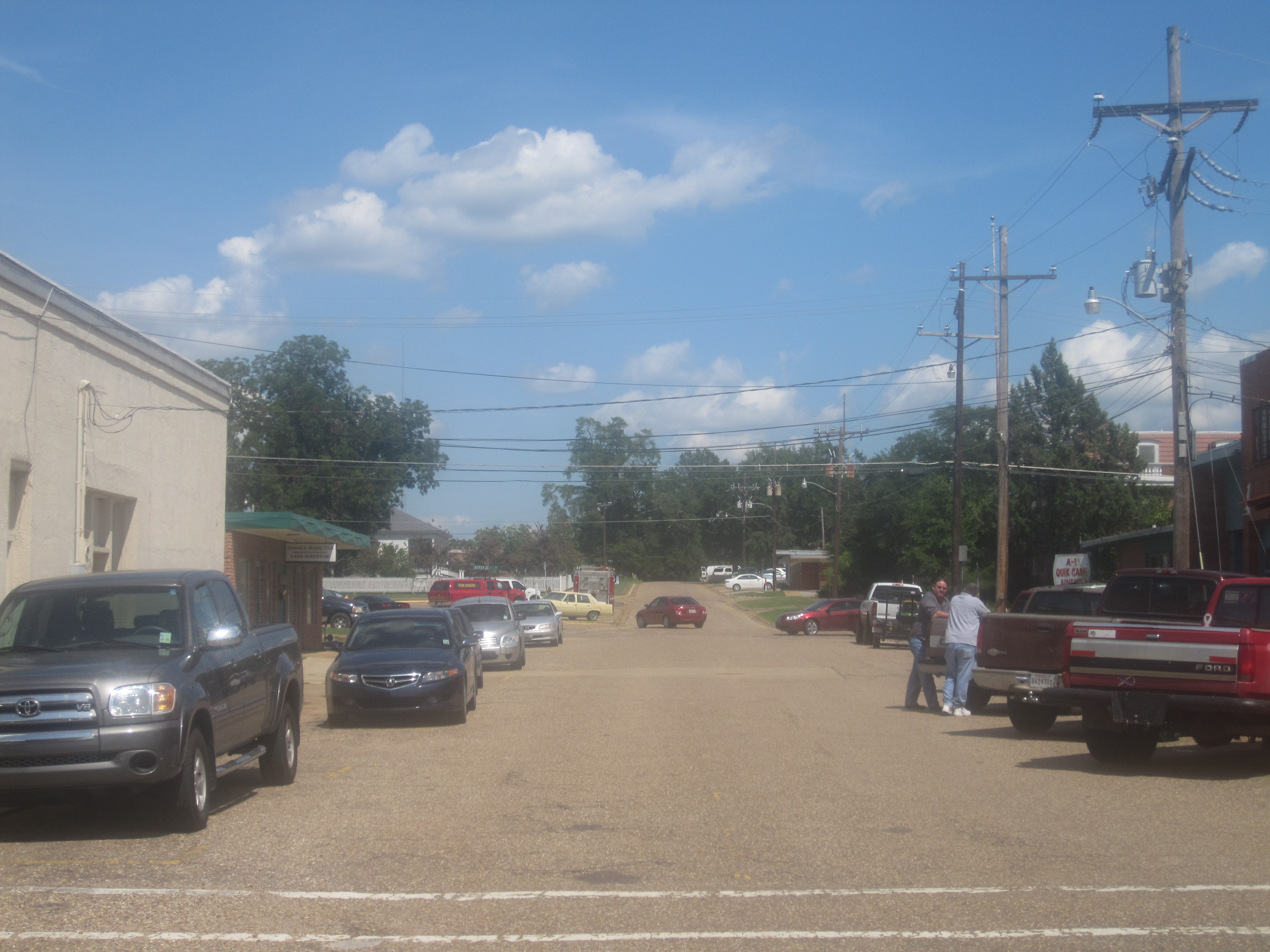 Another view of downtown Mansfield, LA